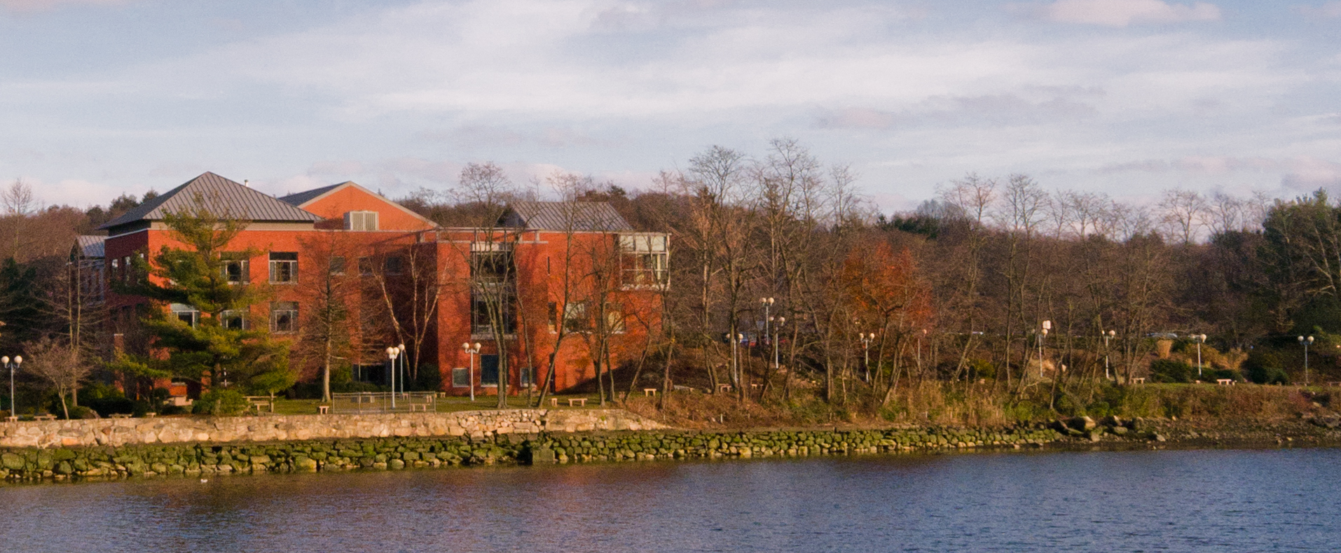 Westport Public Library taken from the opposite side of the Saugatuck River.